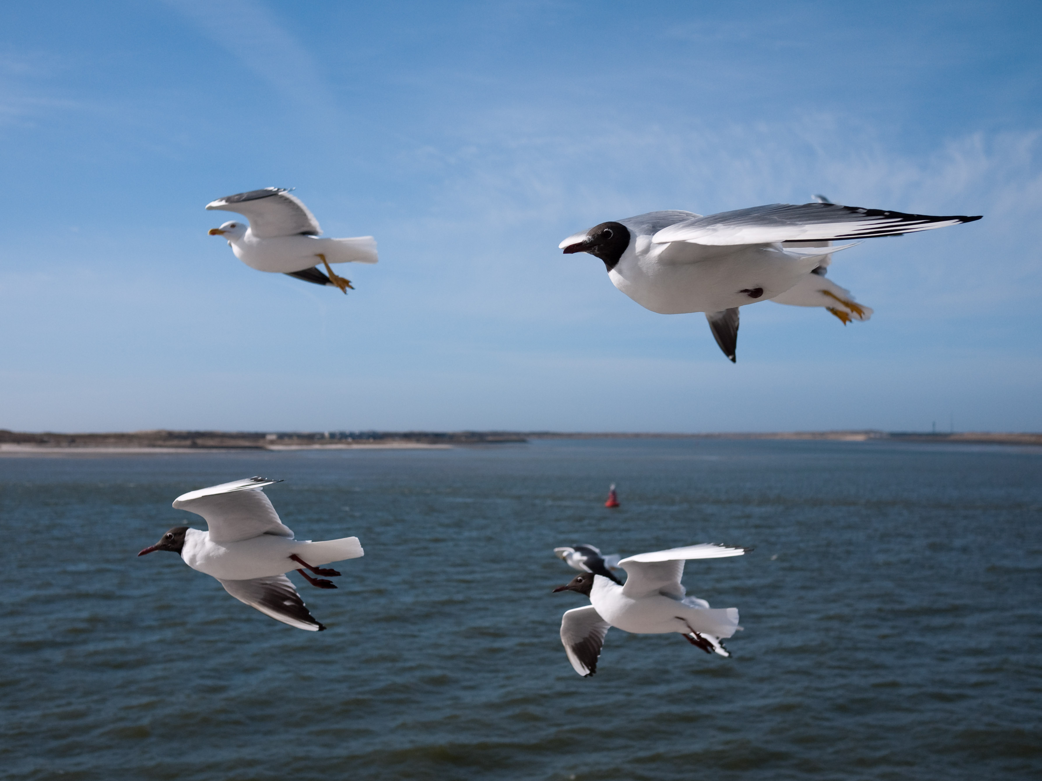 Sea gulls in flight over the Dutch Wadden Sea south of Texel.